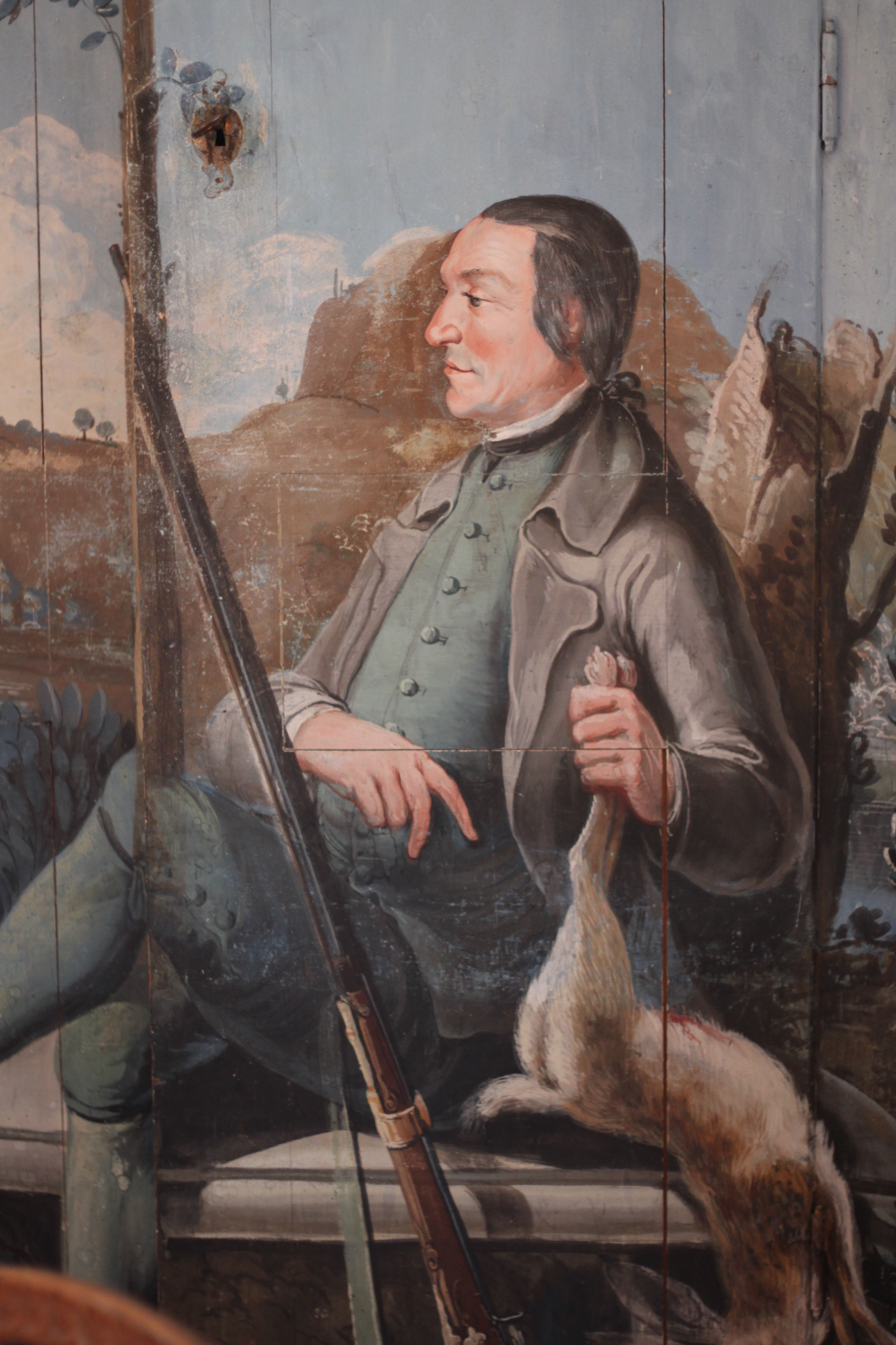 Franz von Gumer - wall painting of Martin Knoller (1725-1804) in the summer house of the Gumer familiy (today Toggenburghouse) in Maria Himmelfahrt